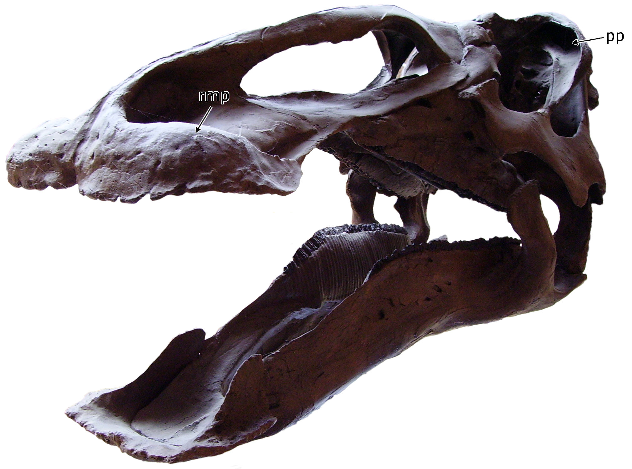 Skull of hadrosaurine hadrosaur Edmontonsaurus annectens showing important edmontosaur features: pp = postorbital pocket, rmp = reflected margin of premaxilla.